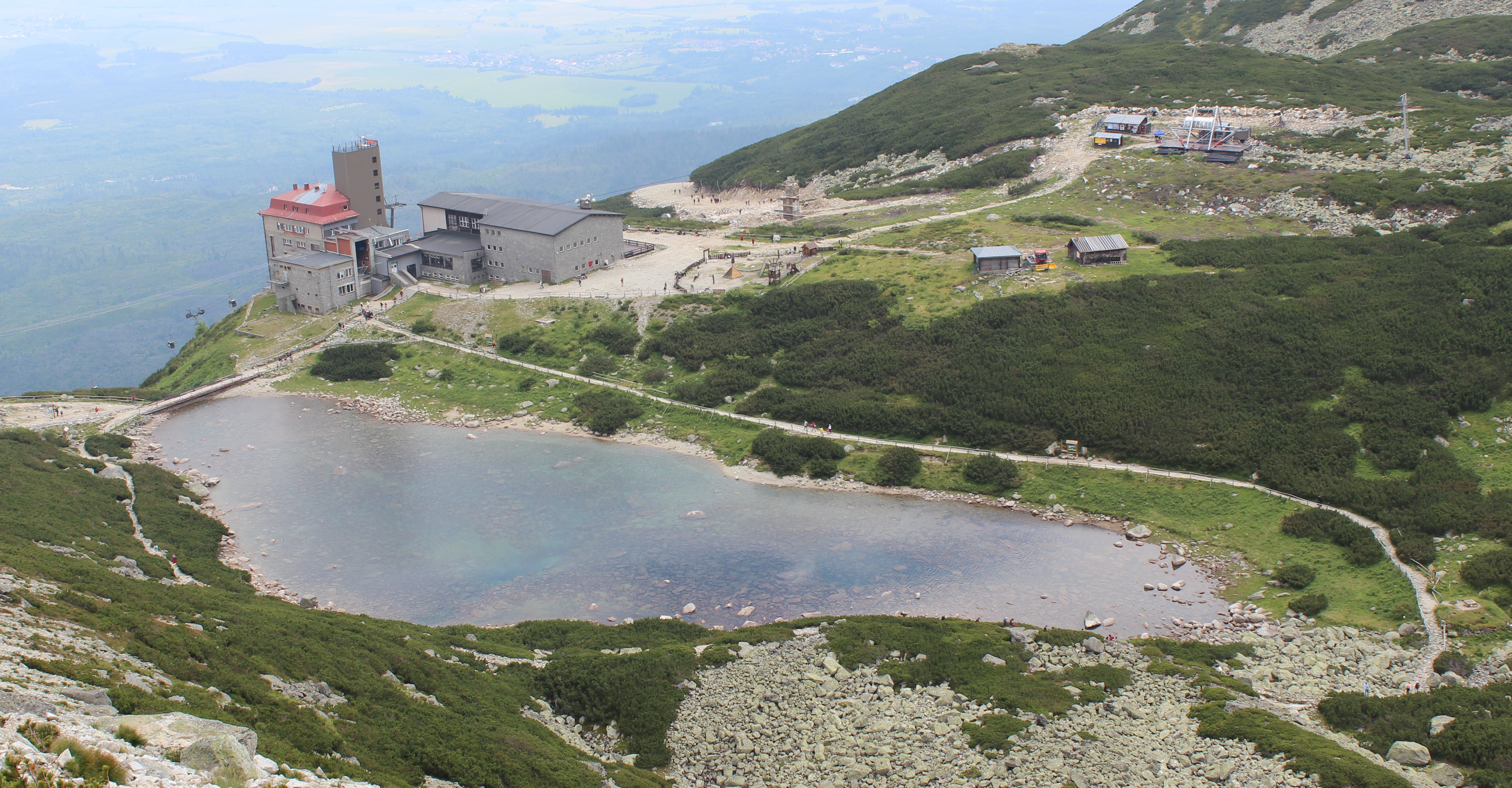 Skalnaté pleso. High Tatra Mountains, Slovakia This photograph was taken with a DSLR from WMCZ's Camera grant.